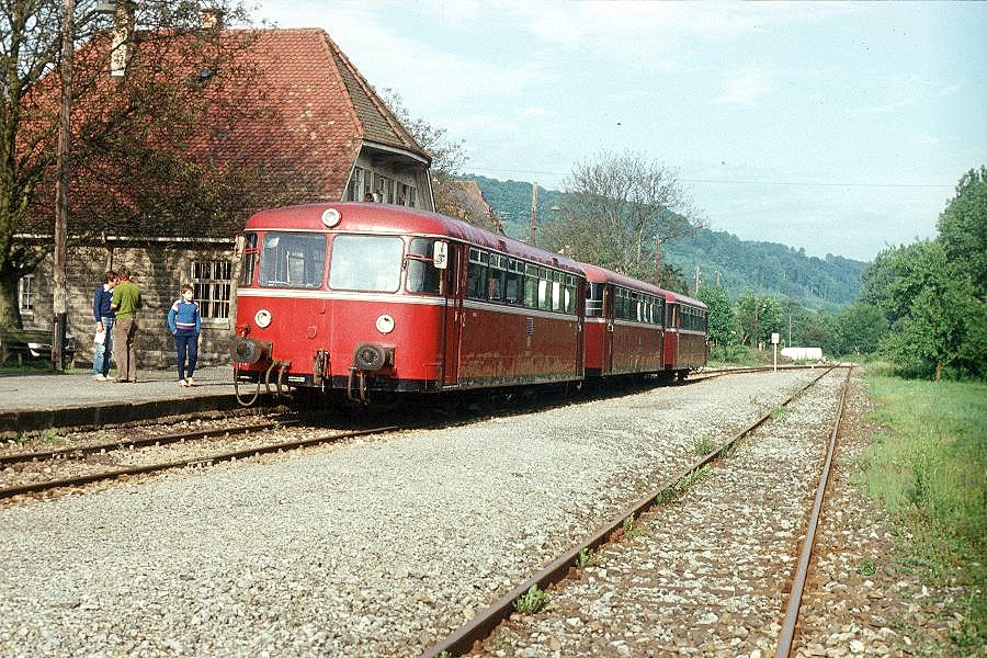 Last regular passenger train in Forchtenberg station.